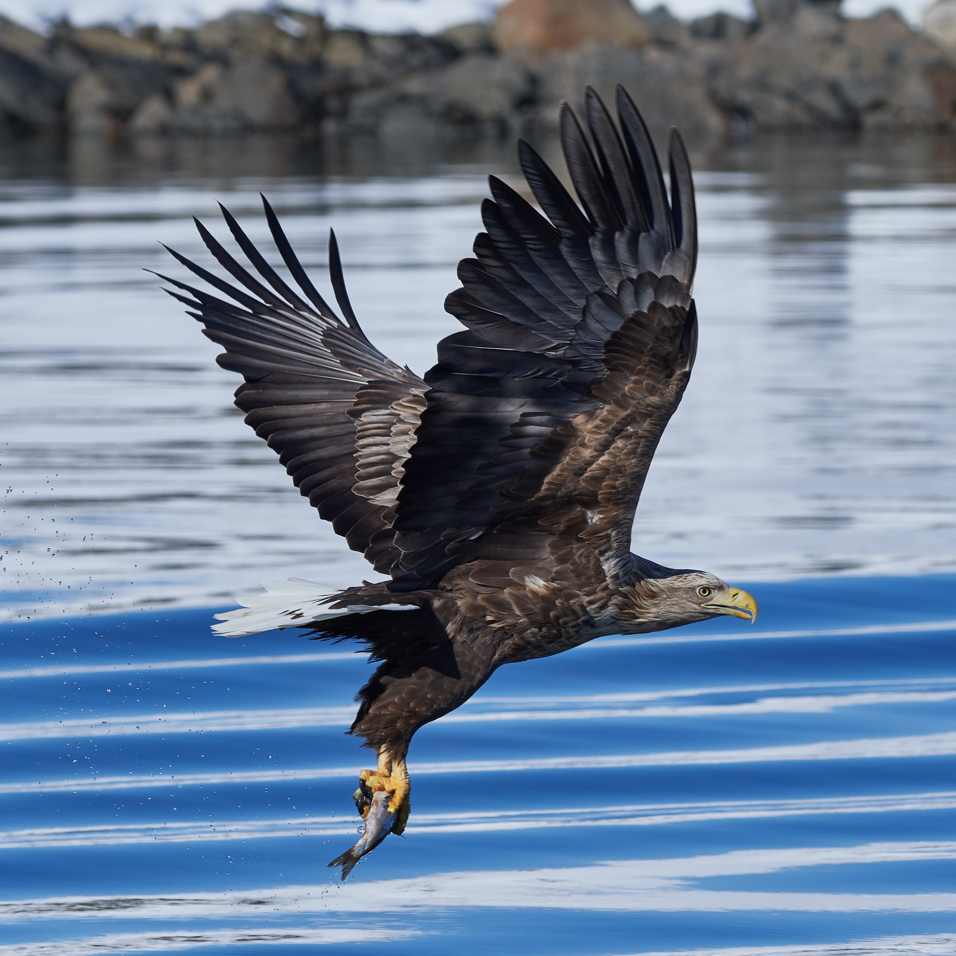 White-tailed eagle grabbing a fish near Raftsund, Lofoten/Norway